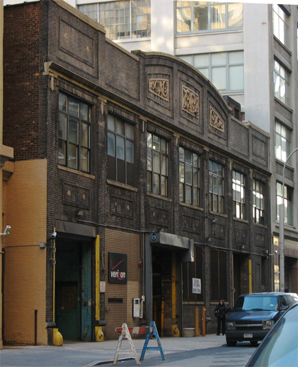 I took this photo for the purpose of illustrating the Wikipedia article on the Paradise Garage. It is not copyrighted.